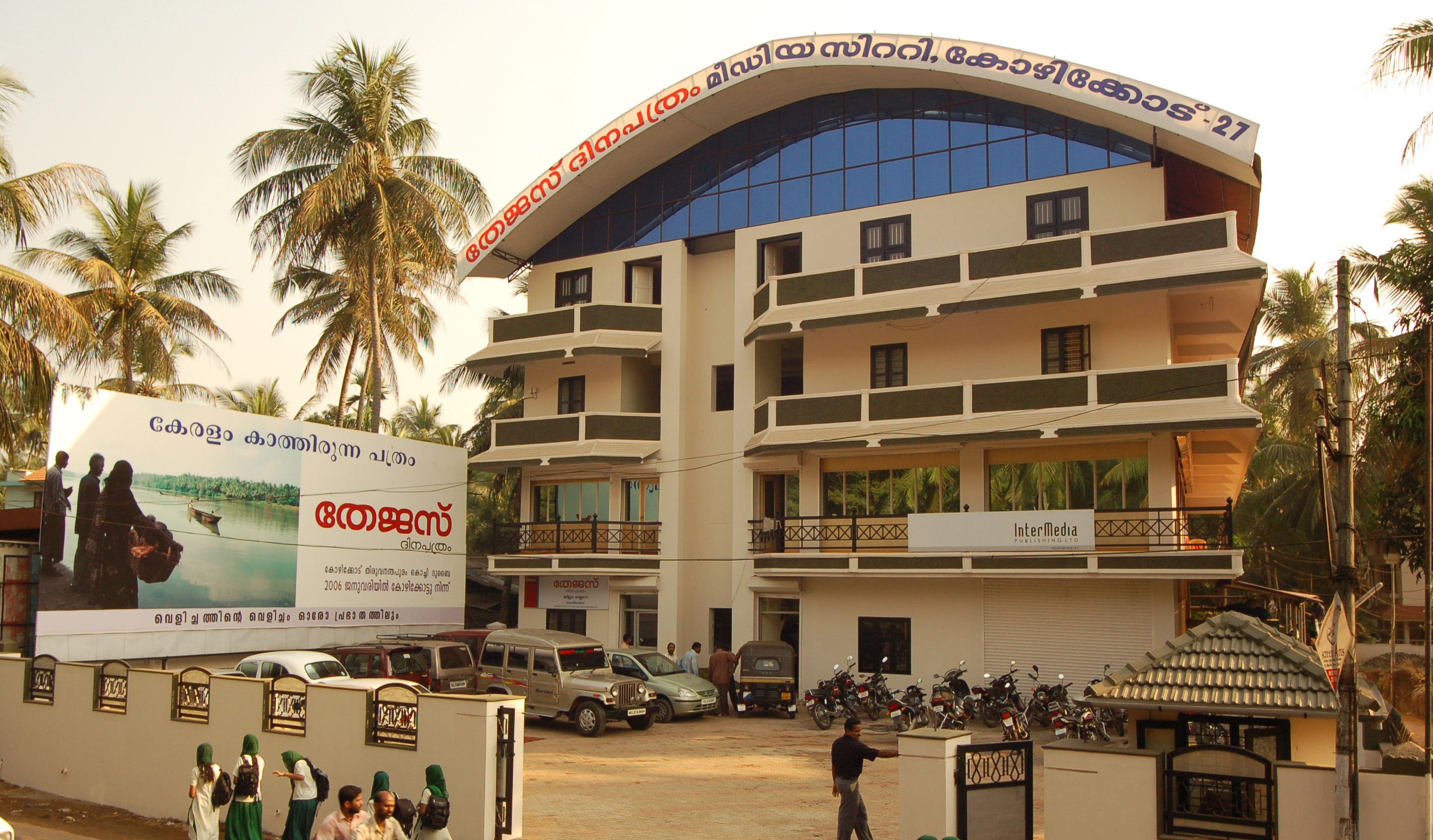 head quarters of thejas daily